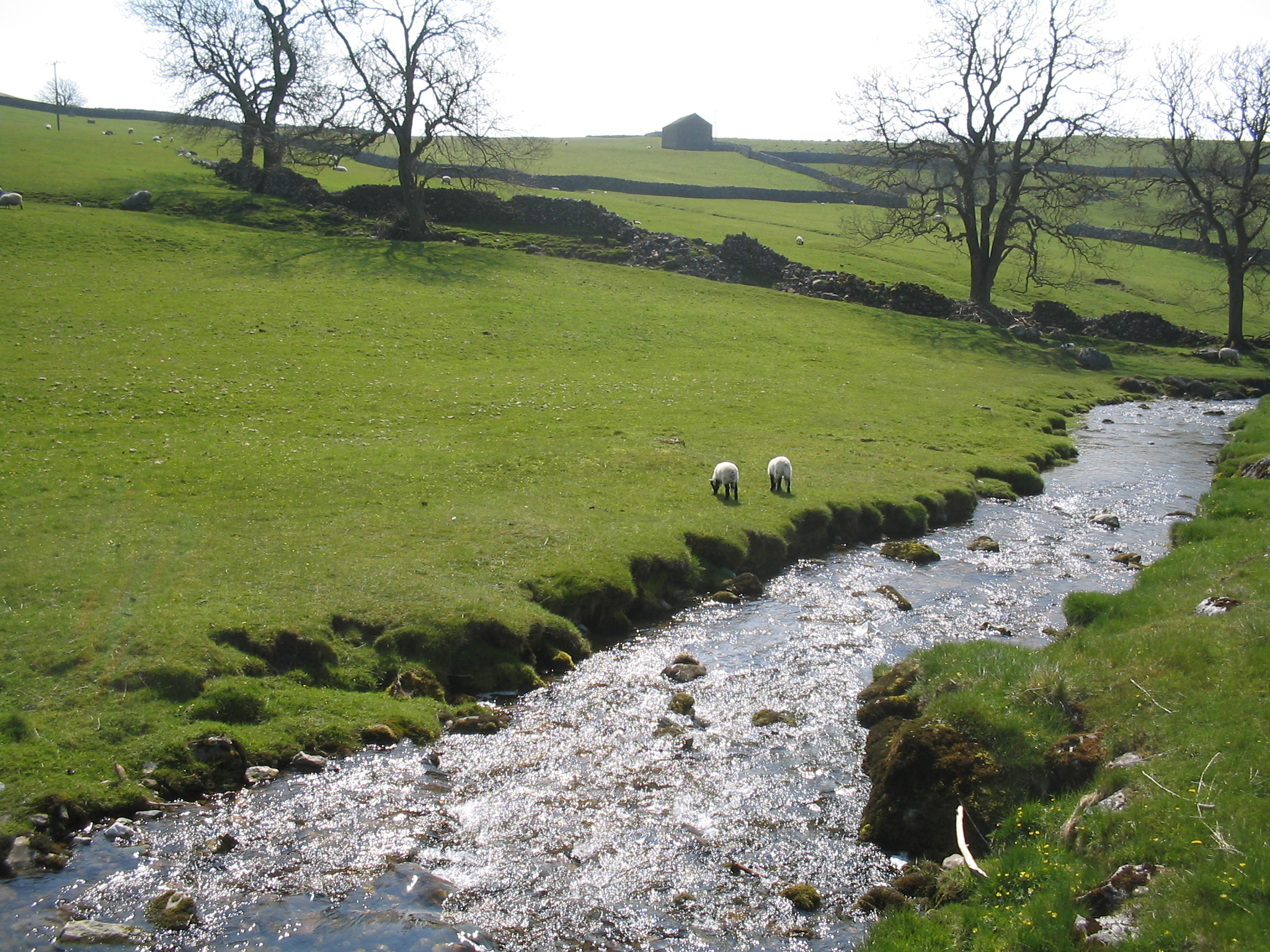 Near the bottom of Gordale Scar. My map has this as "Gordale Beck", though presumably it is the River Aire. David Benbennick took this picture on Sunday, April 24, 2005 at 12:28 PM (11:28 UTC).